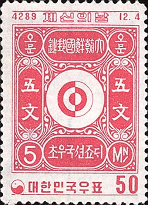 Postage stamp of South Korea, World Stamp Day, 50 hwan, 1956